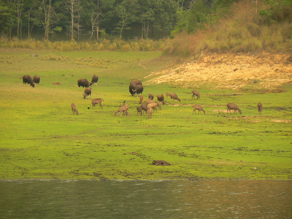 Gaur (Bos gaurus gaurus) and sambar deer (Rusa unicolor unicolor) at Periyar National Park